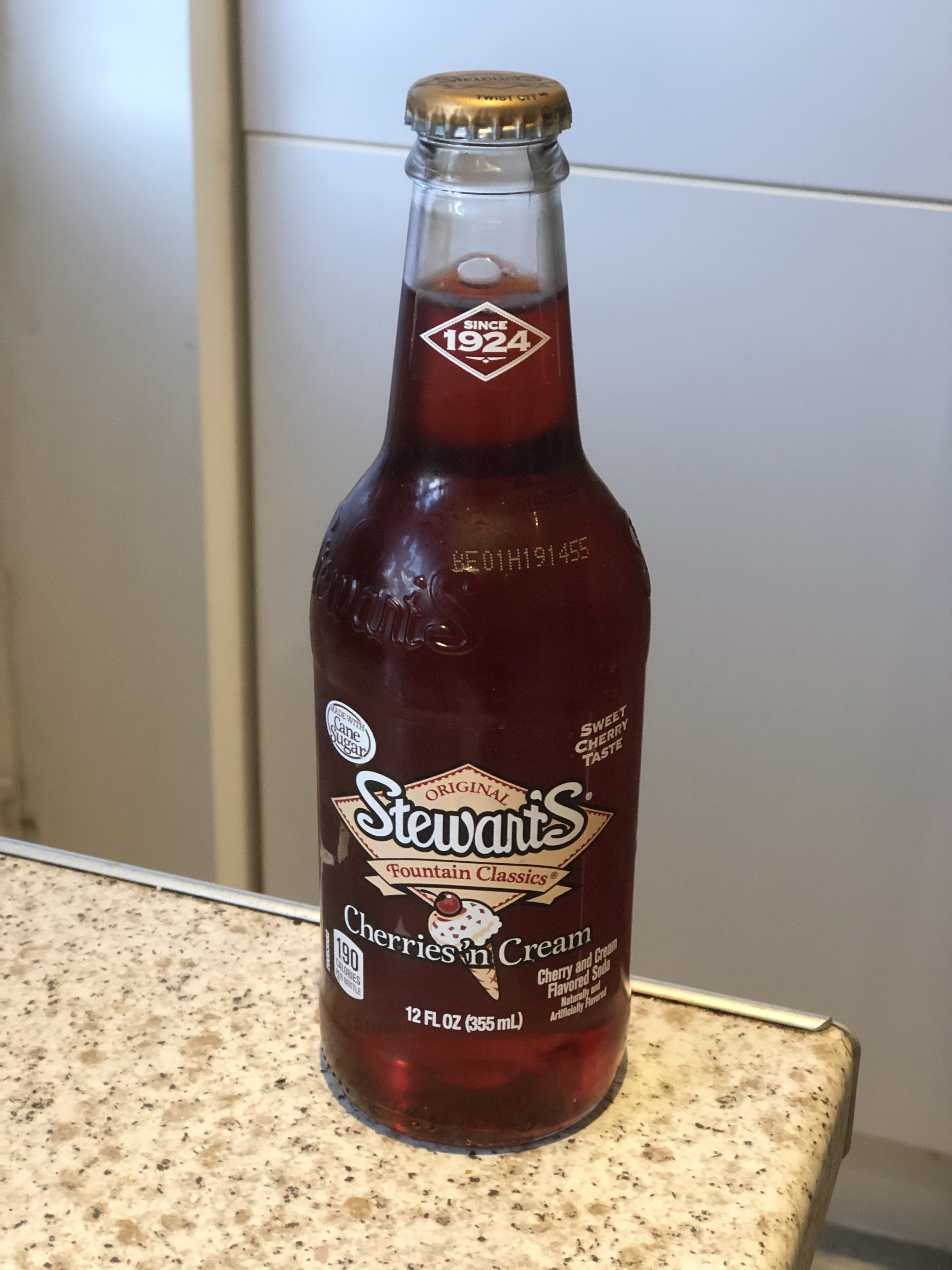 A bottle of Stewarts Cherries'n'Cream Soda. Photo taken in my kitchen, East London, UK 2020-06-20